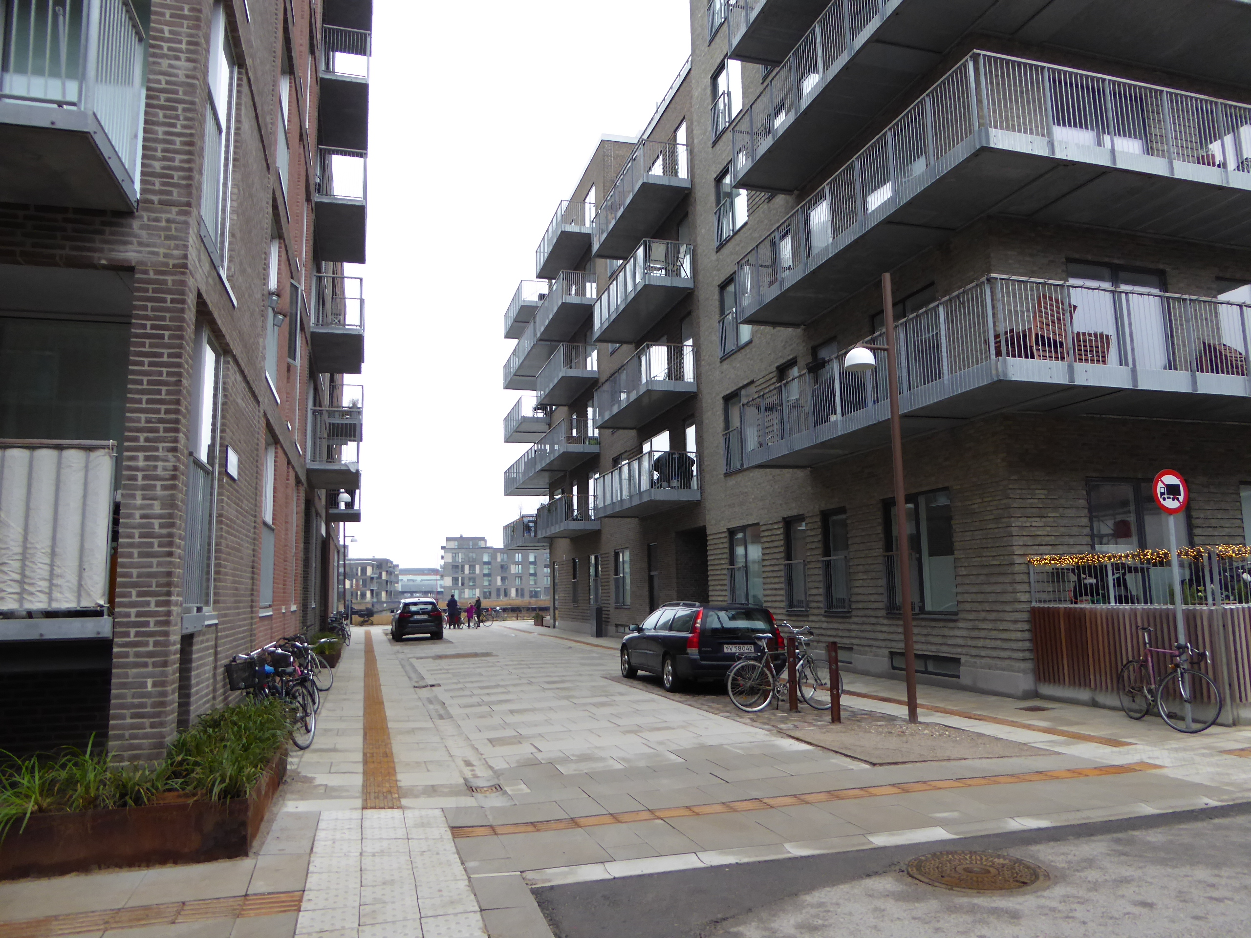 The street Ystadgade in Nordhavn in Copenhagen.